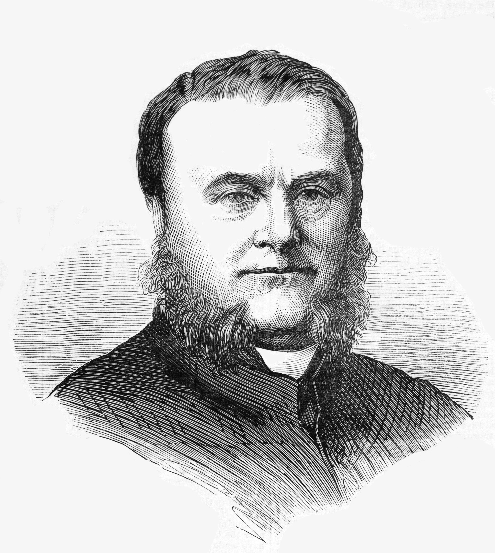 Portrait of George Oakley Vance (1828–1910)